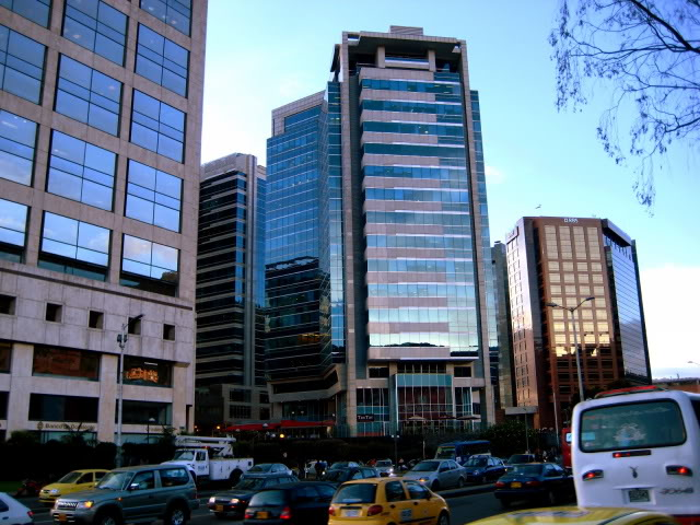 Santa Barbara Bussiness centre